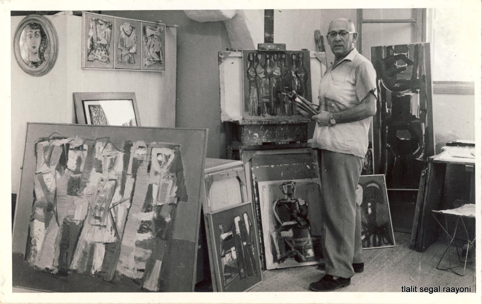 In his studio in Ein Hod